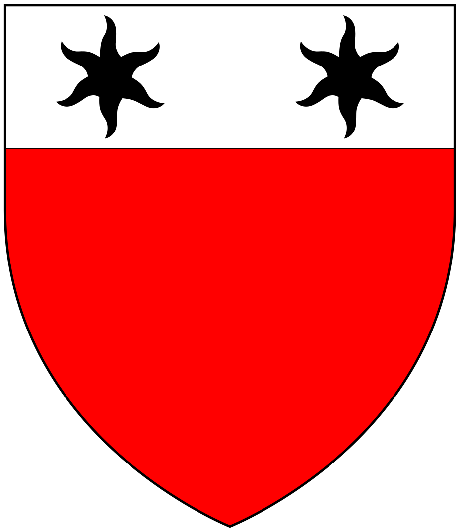 Arms of Prust of Thorry, Hartland, Devon: Gules, on a chief argent two estoiles sable (Vivian, Heralds' Visitations of Devon, 1895, p.629)